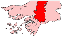 Map of Guinea-Bissau showing Bafatá region.